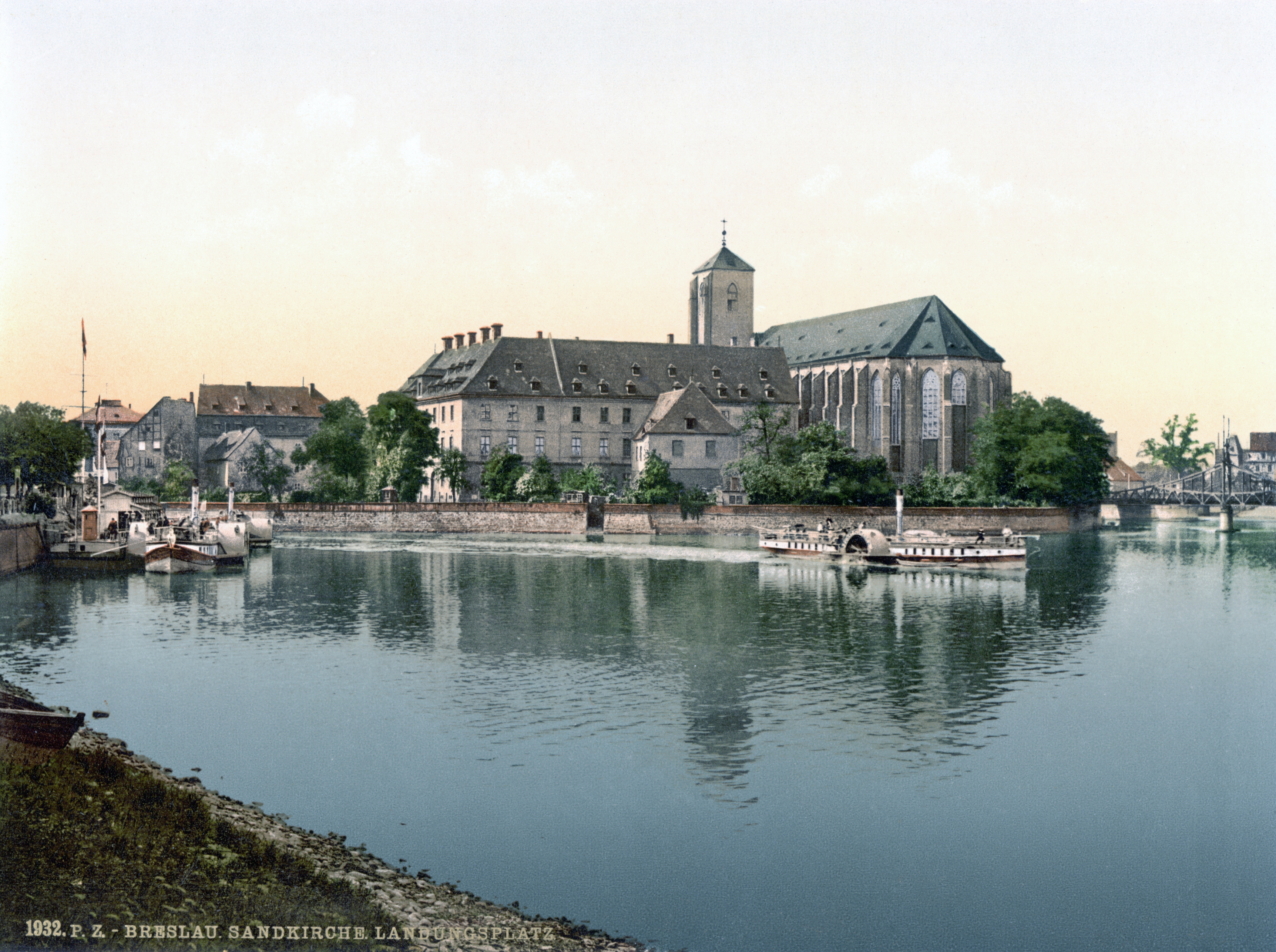 Landing place, Sand Church, Breslau, Silesia, Germany (i.e., Wrocław, Poland)